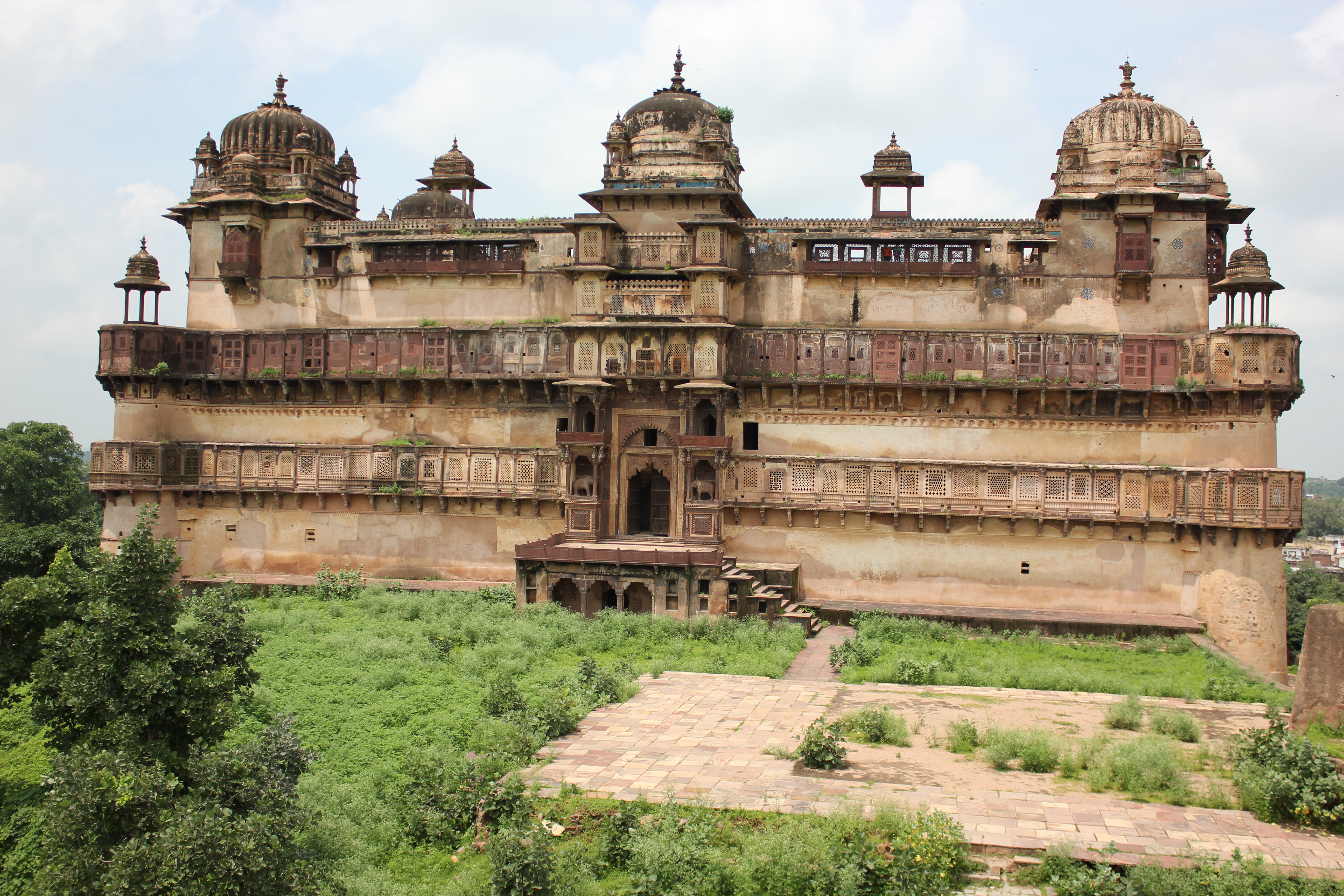 The view of janagir mahal, Orchha, MP, india frrom the Camel Stables side.